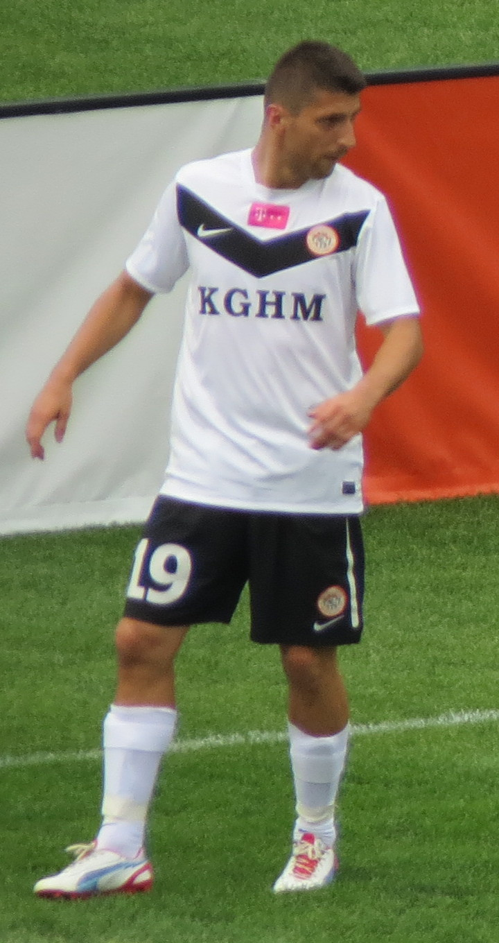 A.S. Roma vs Zagłębie Lubin, Wrigley Field, July 22, 2012